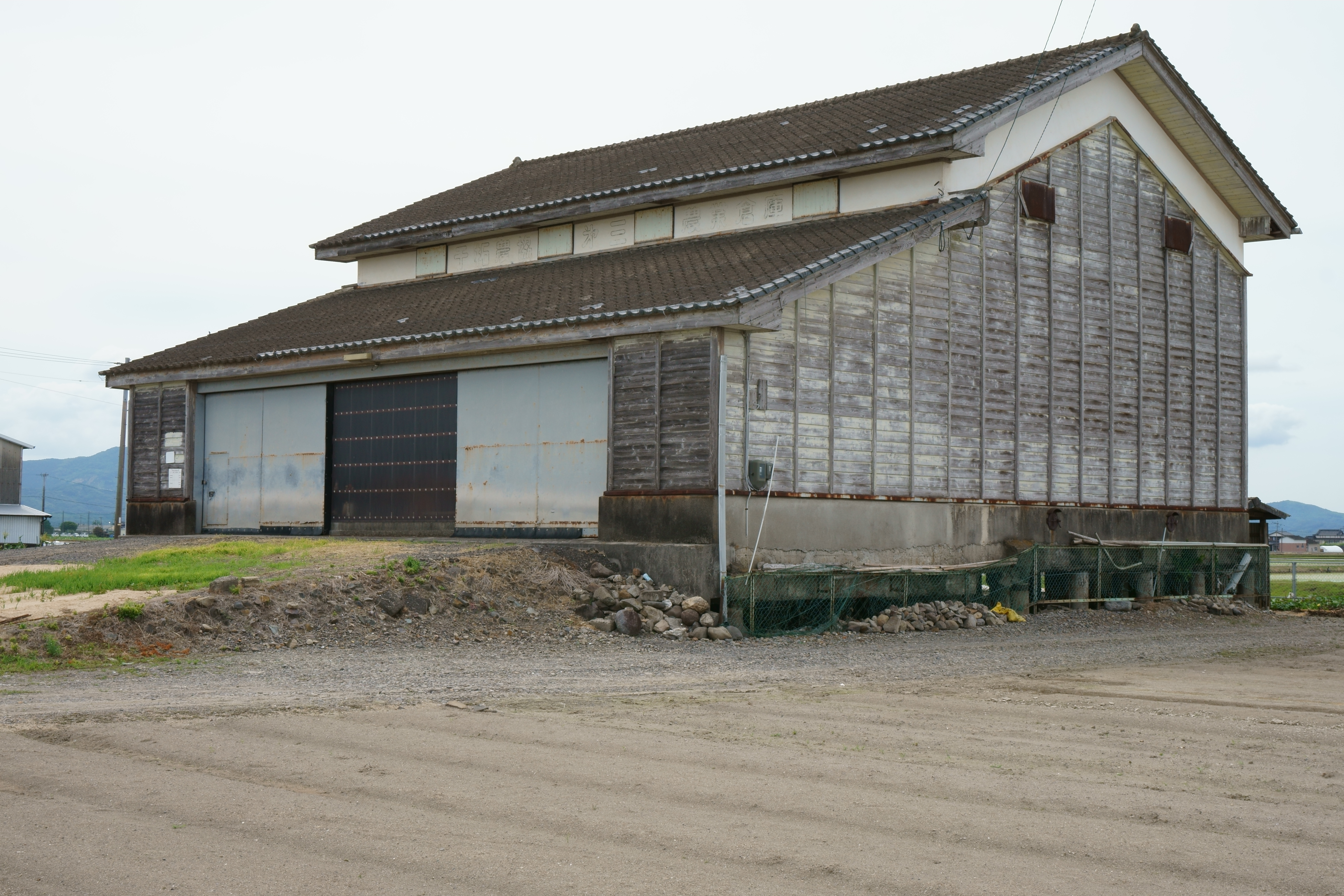 Example of land subsidence: An agricultural warehouse with exposed base piles, that caused by the ground around a warehouse sank about 1.2 metres (3.9 ft) from 1966 to 2004. This is in Shintaku, Shiroishi town, Saga prefecture, Japan.